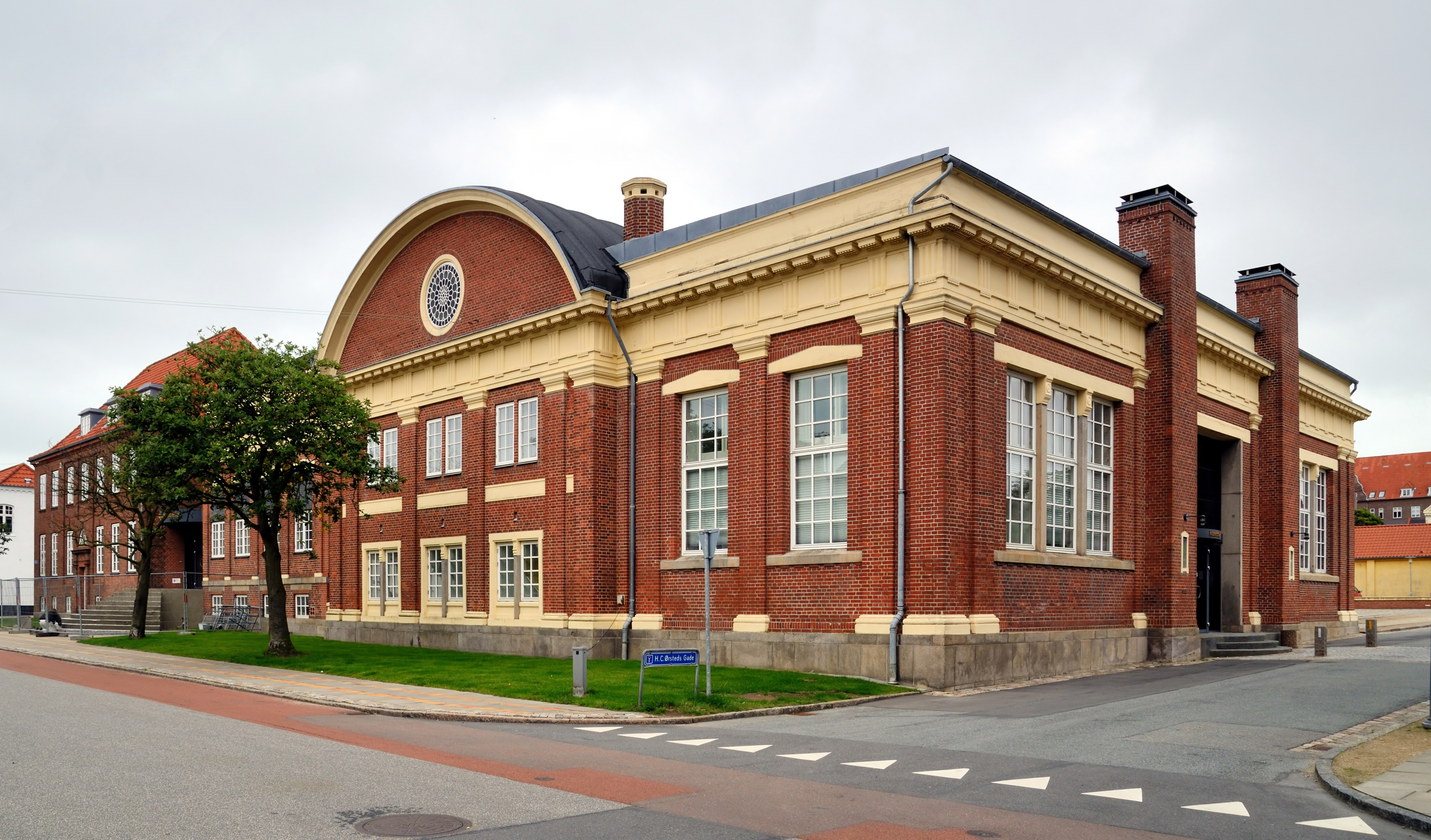 Esbjerg: Academy of Music and Music Communication